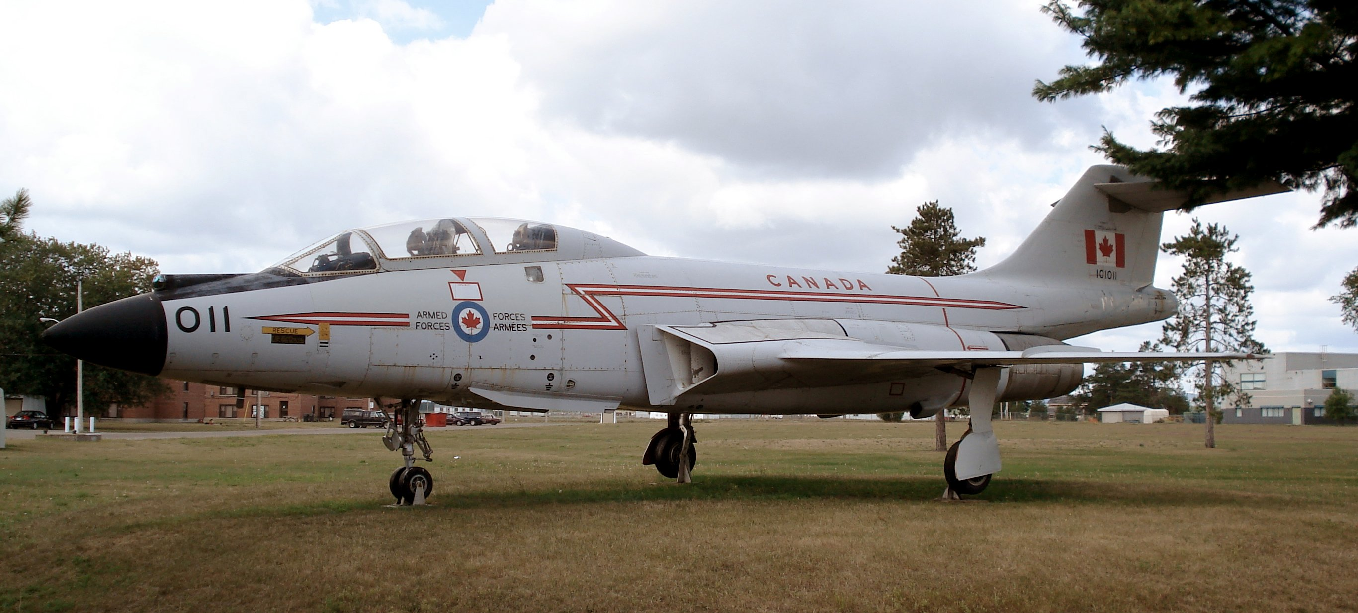 A Canadian McDonnell CF-101B Voodoo (Canadian version of US F-101B) at CFB Borden (Base Borden Military Museum) in 2006.